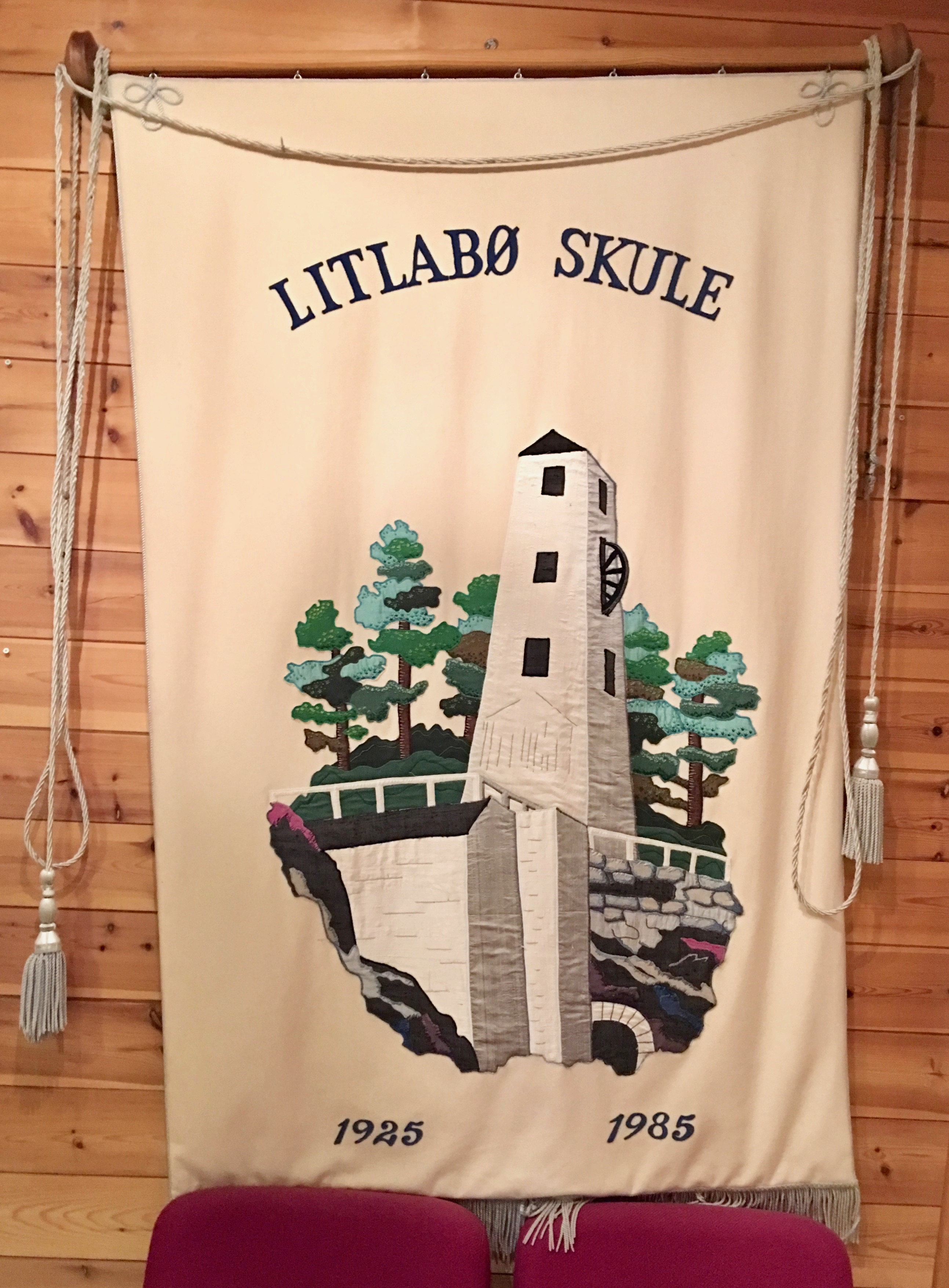 Banner (skolefane) for Litlabø skule, a primary school in Stord, Norway.